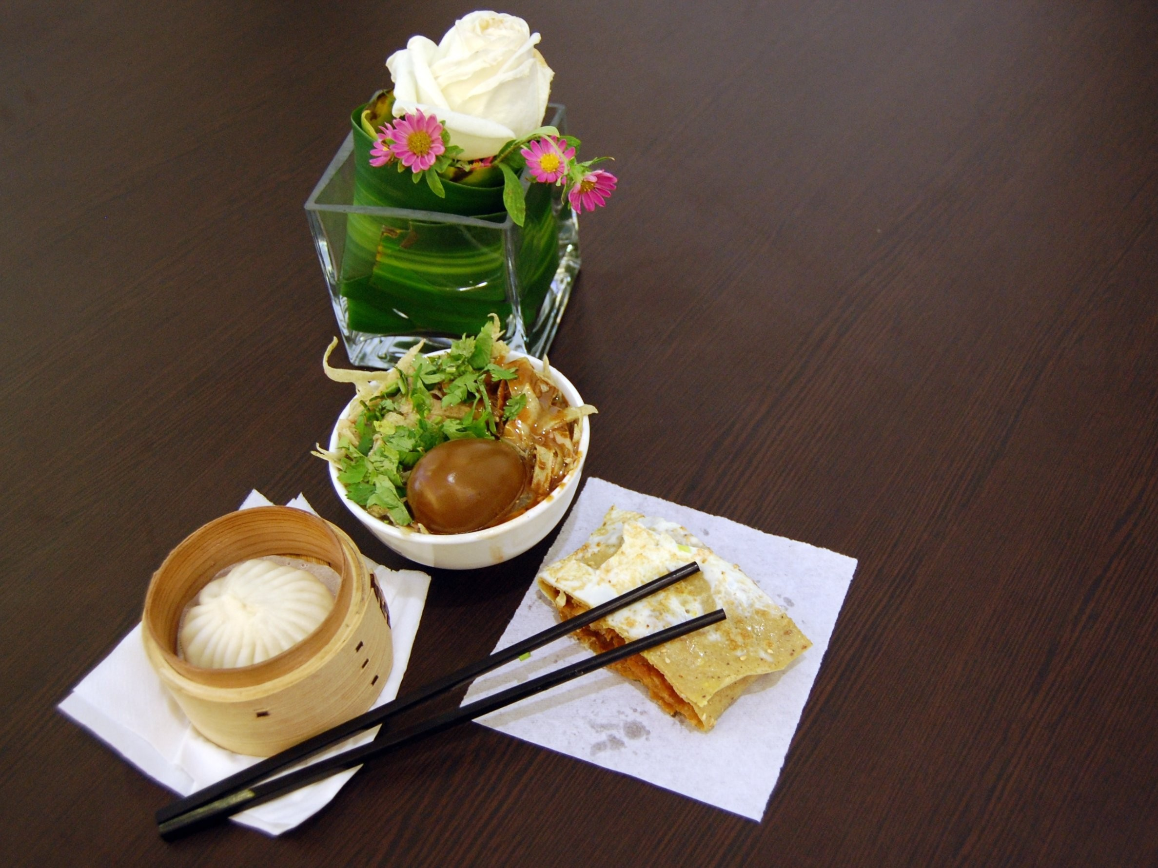 A traditional Tianjin lunch of Goubuli Baozi (steamed stuffed bun/dumpling/siopao), a bowl of Guobacai (choped pancake served with sauce) with a piece of spiced corned egg, and Jianbing guozi (fried dough wrapped in pancake with sauce and fried eggs） (October 2010).